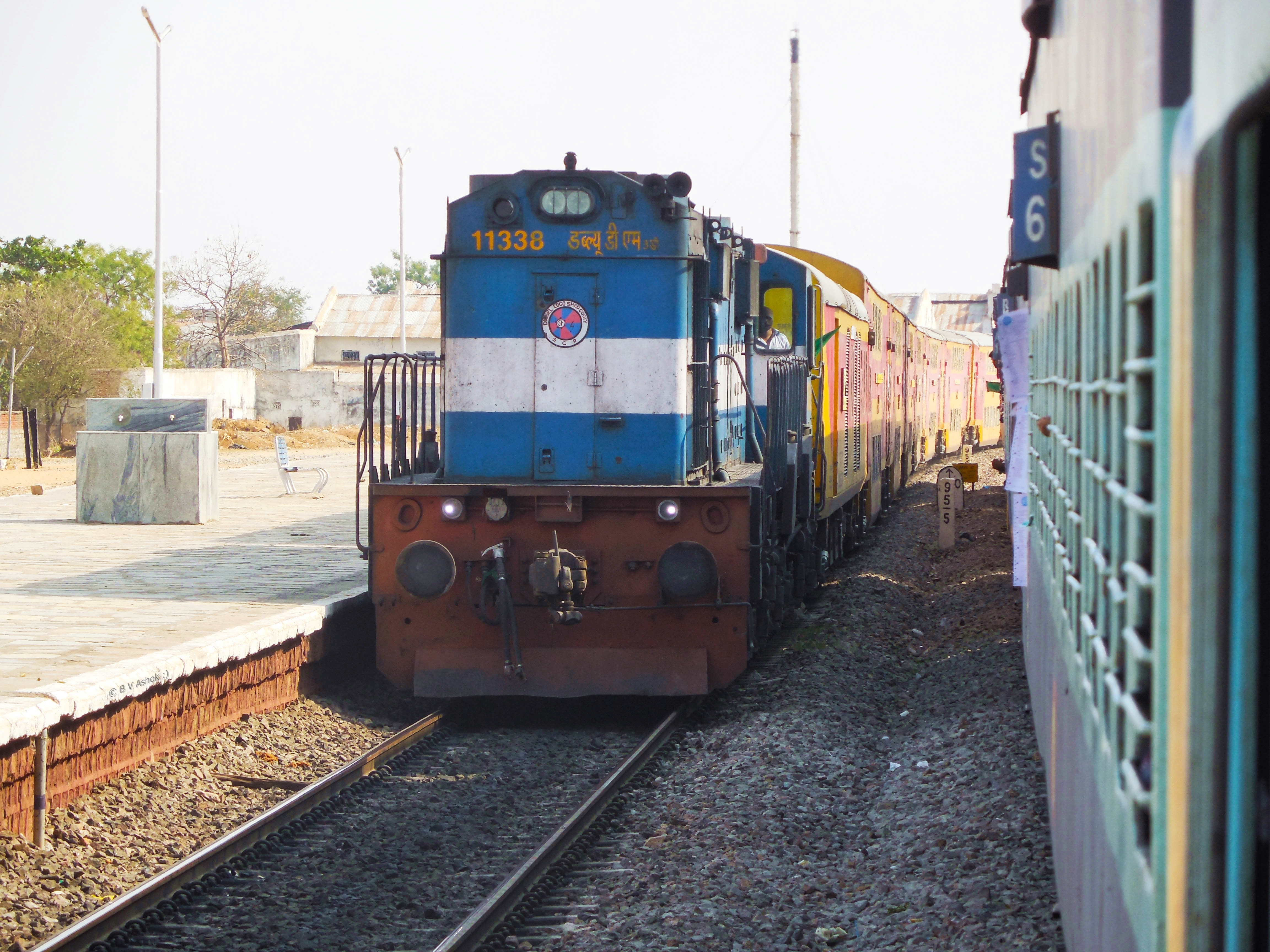 GY WDM-3D 11338 cruising through Jadcherla with 22119 Tirupathi - Kacheguda Double Decker Superfast Express....